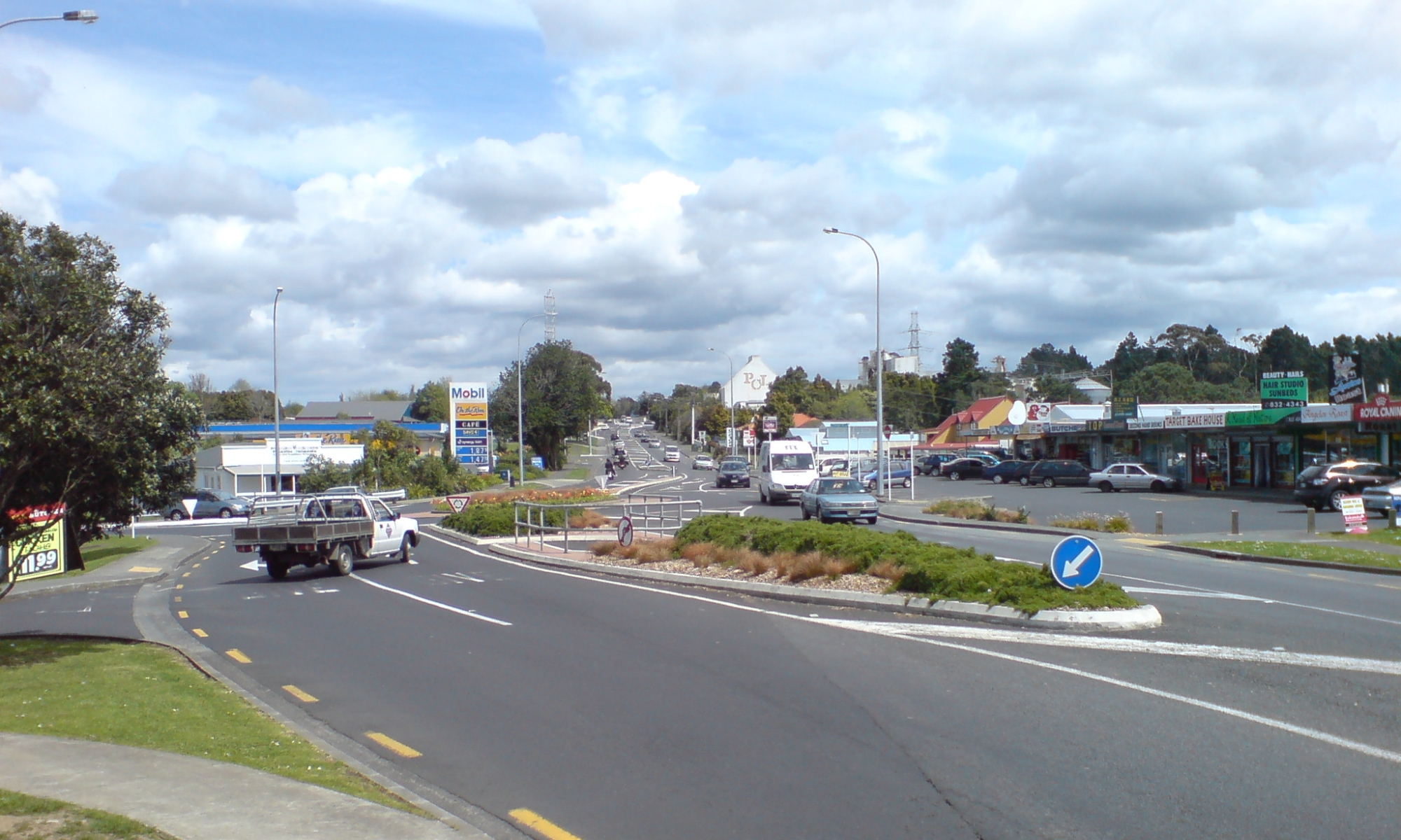 The Massey suburb in Waitakere City, New Zealand. Intersection of Don Buck Road and Triangle Road.